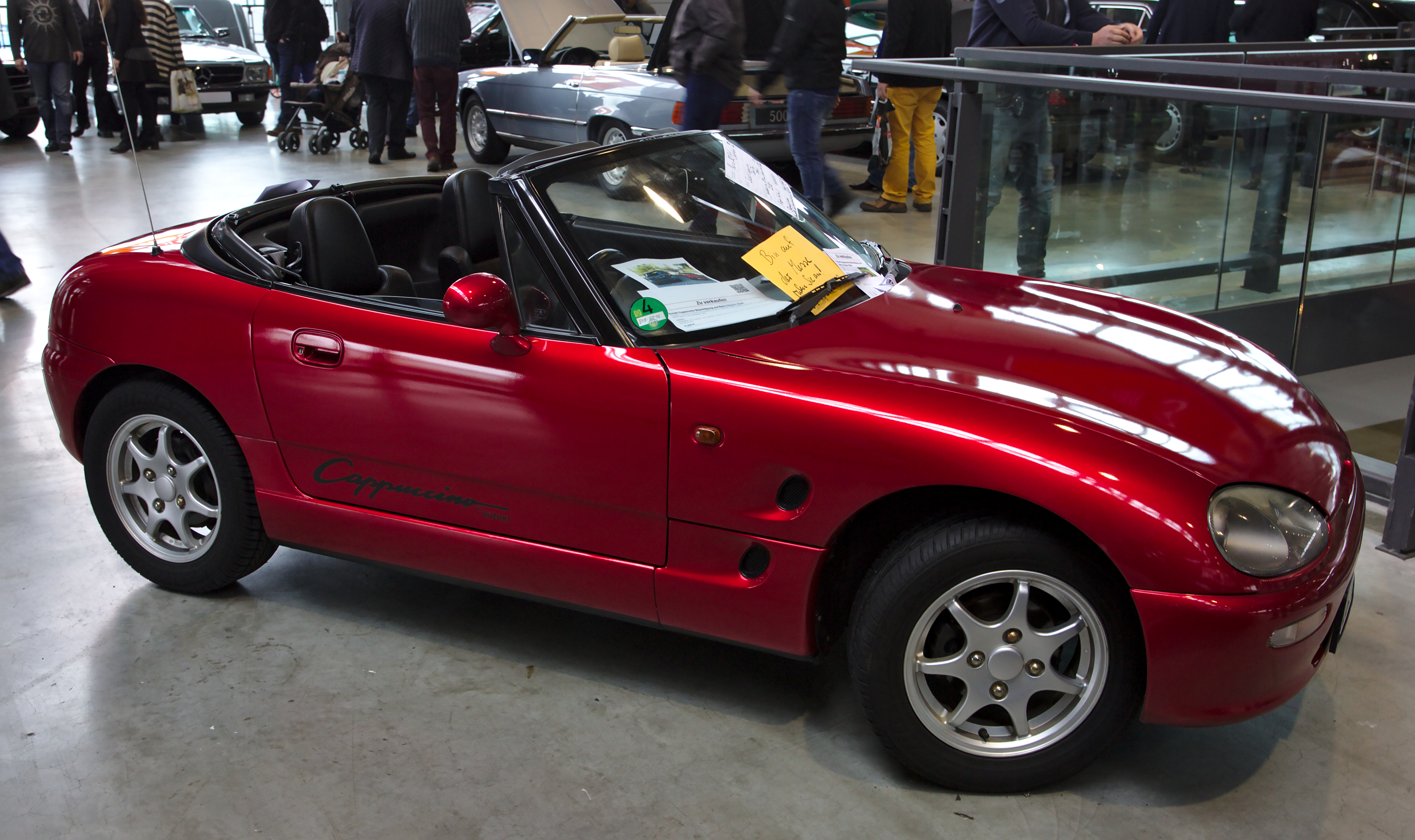 Suzuki Cappuccino at Retro Classics 2018